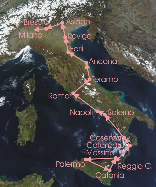 Map of Italy highlighting the stages of 1930 Giro d'Italia